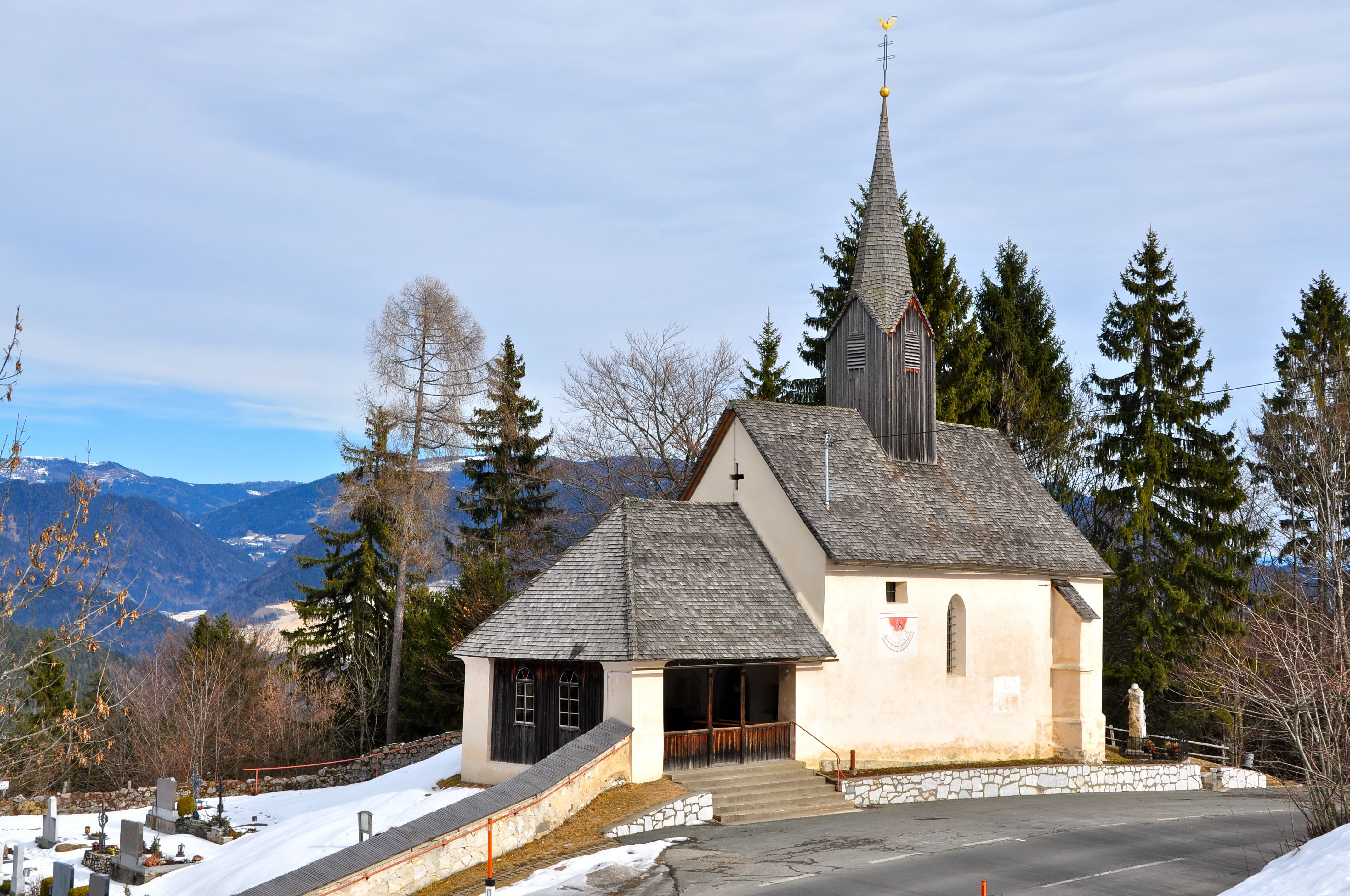 Parish church Holy Spirit in Heiligengeist, municipality Villach, Carinthia, Austria, EU